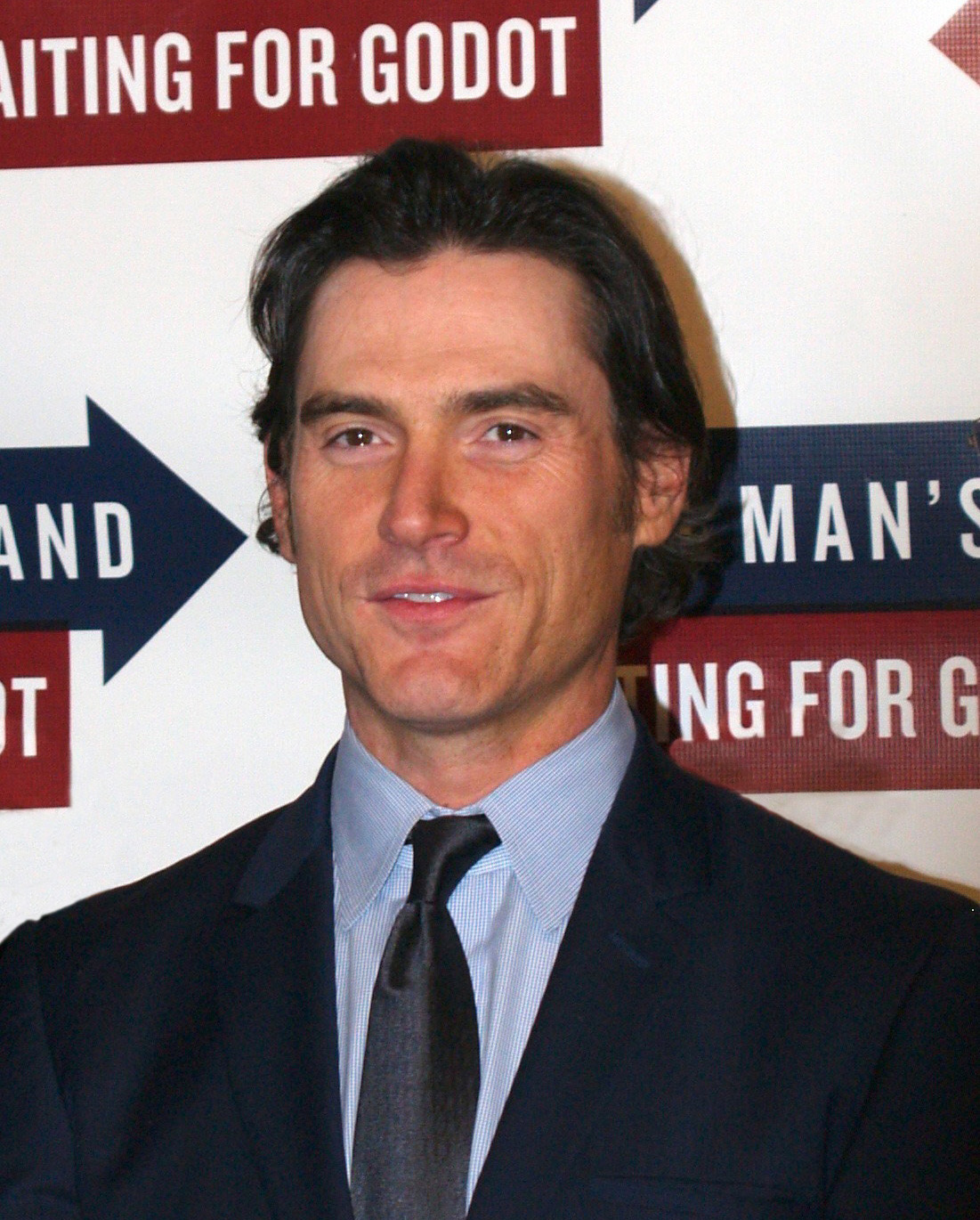 Actor Billy Crudup at a September 24, 2013 press junket at Sardi's restaurant in Manhattan's theater district for the Broadway shows Waiting for Godot and No Man's Land. This photo was created by Luigi Novi. It is not in the public domain, and use of this file outside of the licensing terms is a copyright violation.